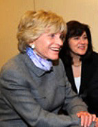 Jean Kennedy Smith and Vicki Kennedy, wife (now widow) of Senator Ted Kennedy, at a National Institutes of Health event honoring Eunice Shriver on March 21, 2008.